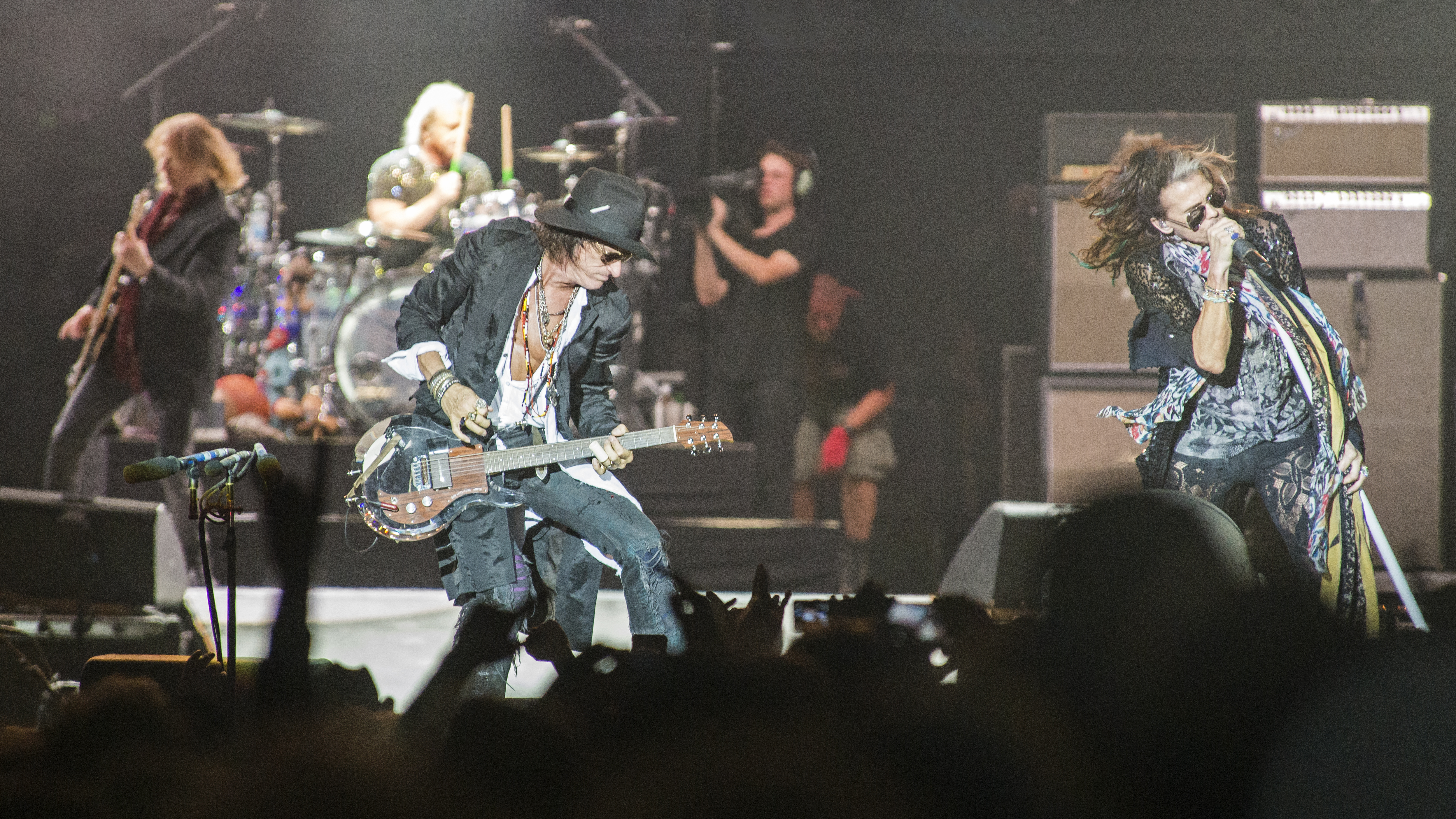 Aerosmith show at 2017 Hellfest, France.